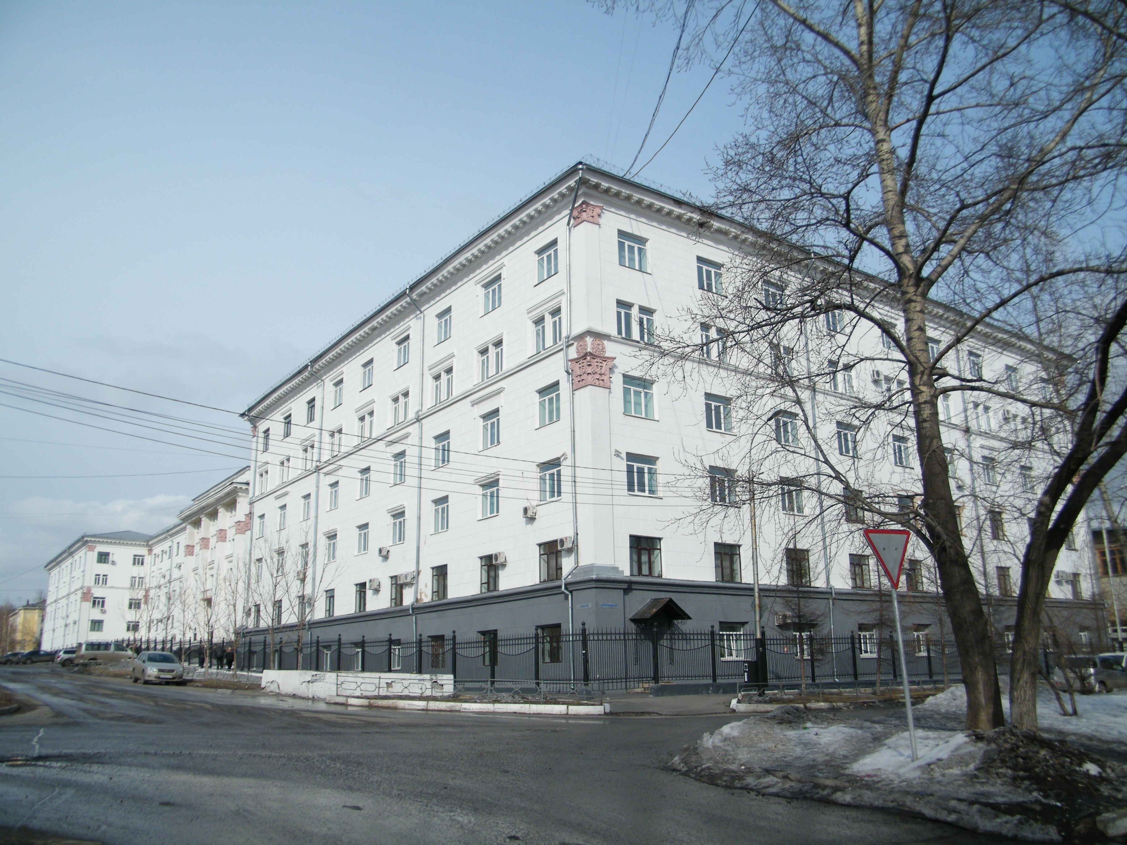 Дальневосточный государственный университет путей сообщения